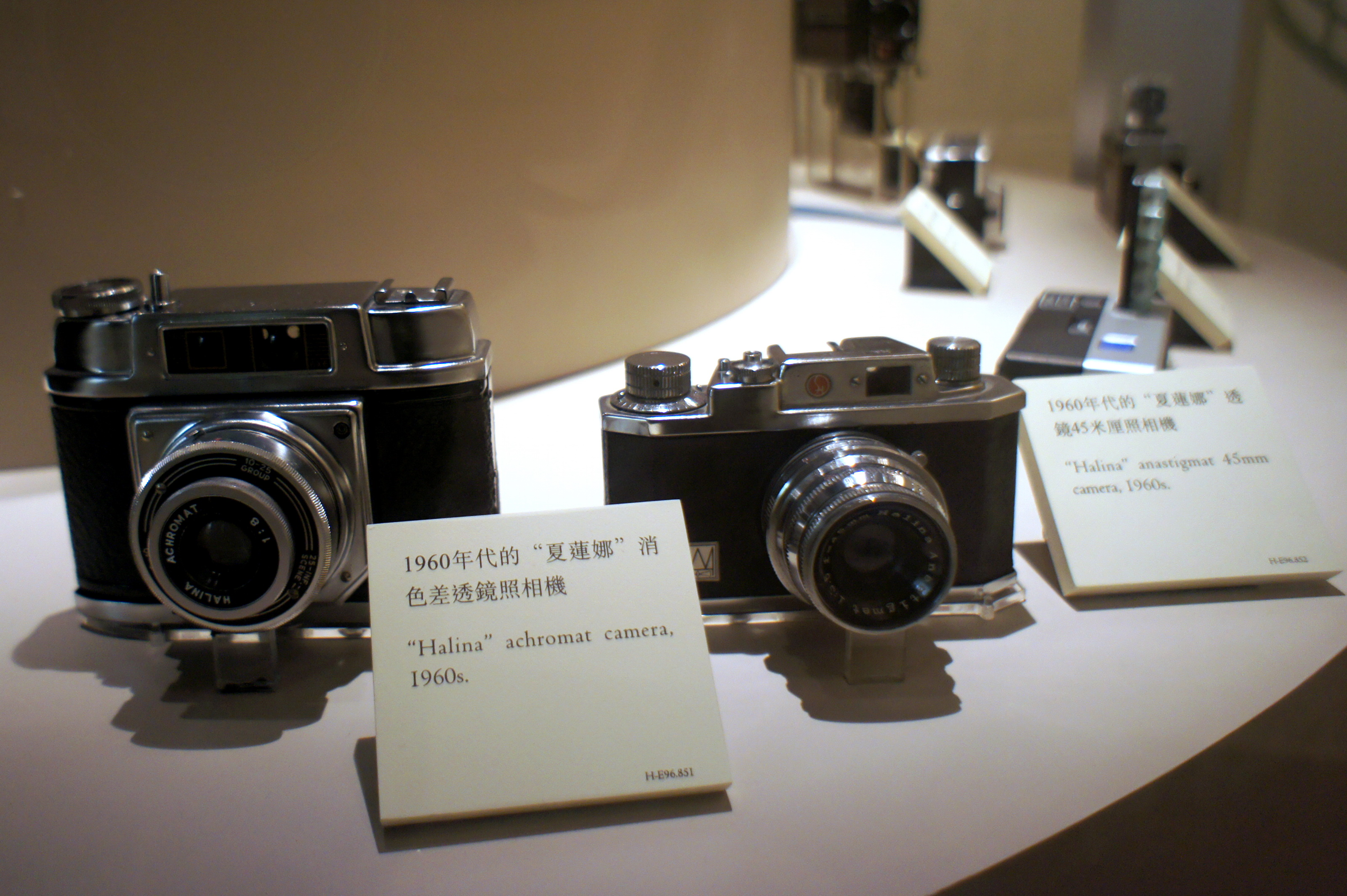 A Halina achromat camera (left) 1960s (Collections of the Hong Kong Museum of History)